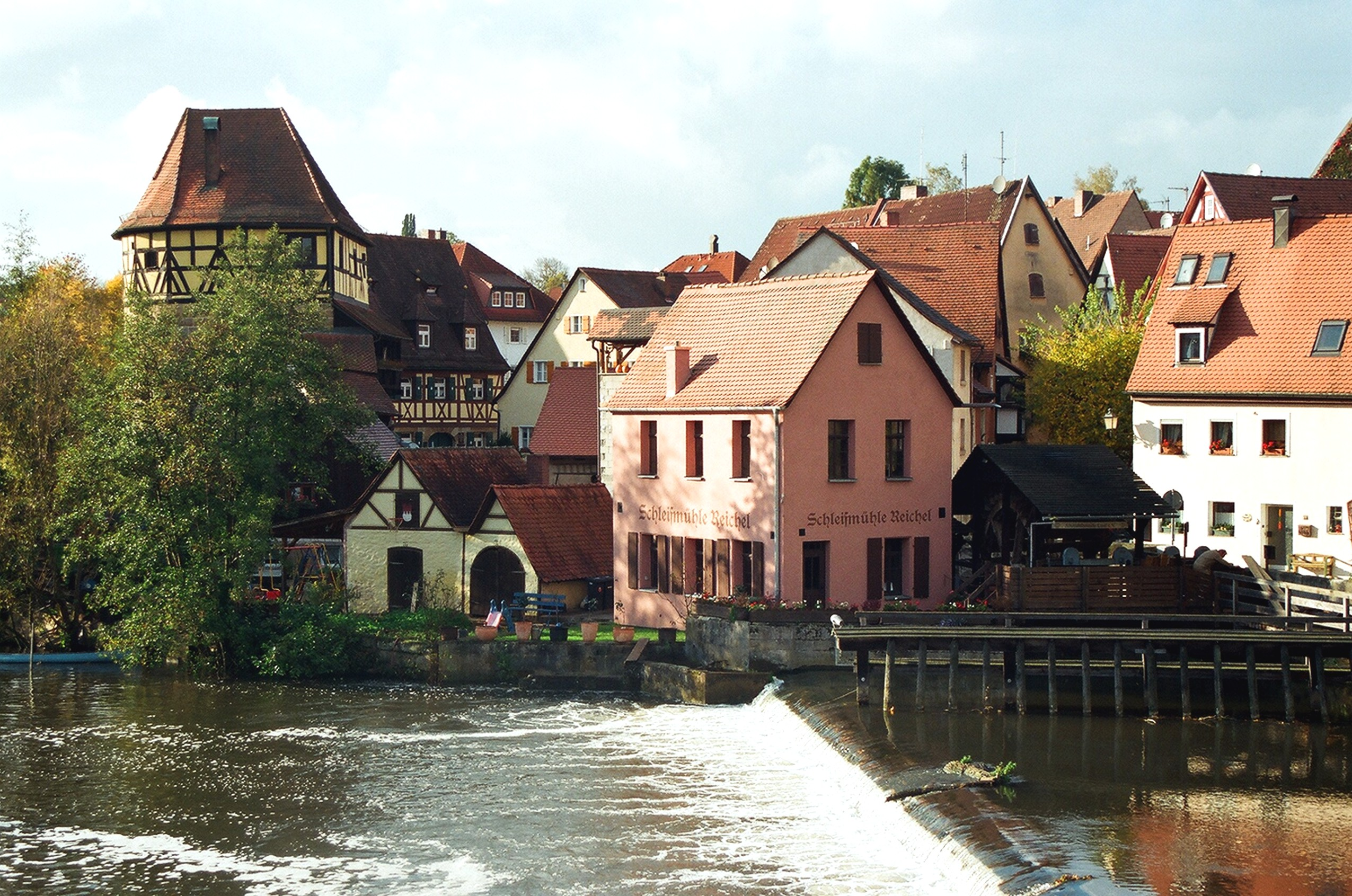 Lauf an der Pegnitz, view to the city